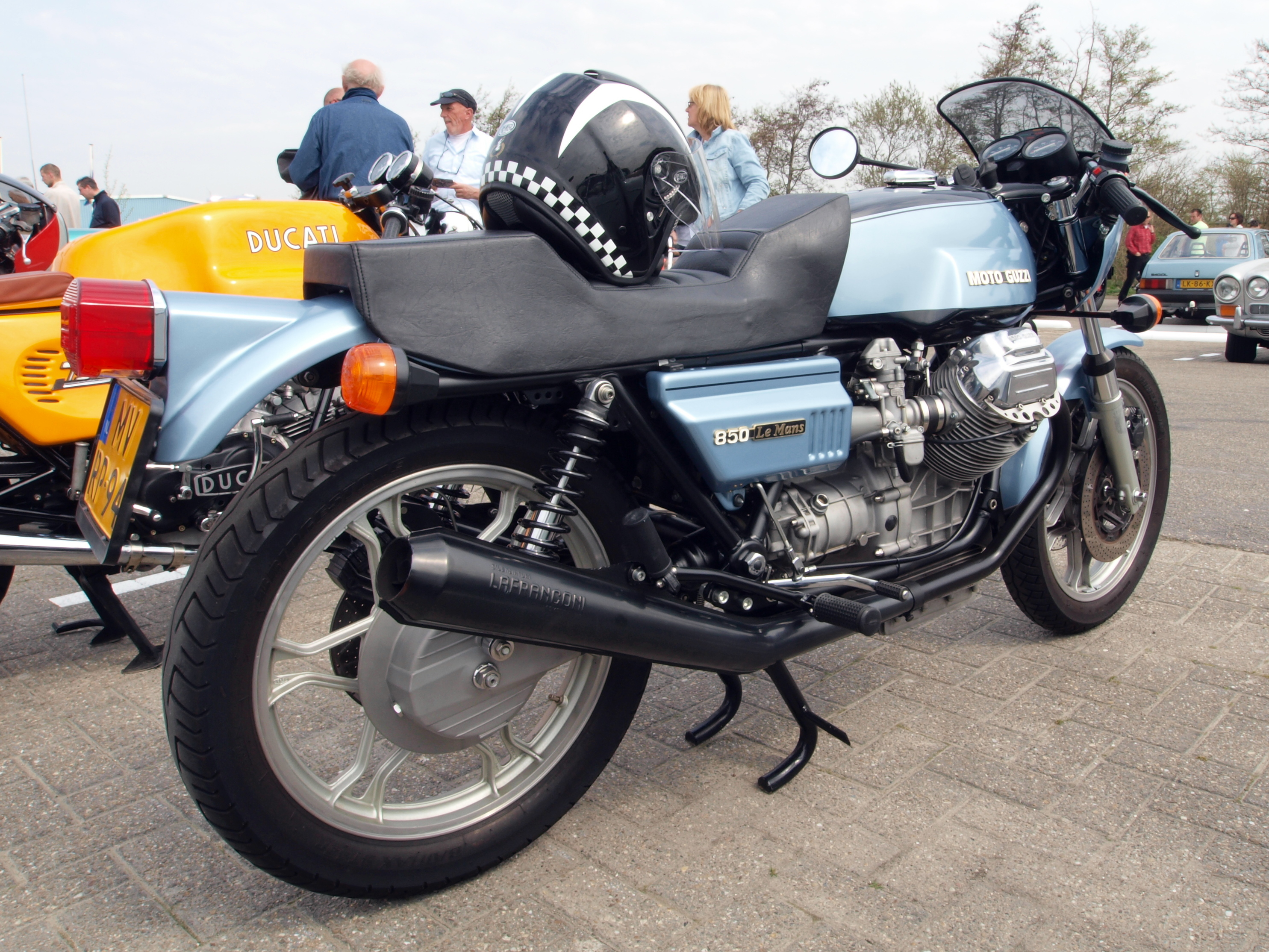 Cars and motorcycles photographed at the Voorschotense Oldtimer Vereniging Show, Valkenburgse meer, The Netherlands. OLYMPUS DIGITAL CAMERA